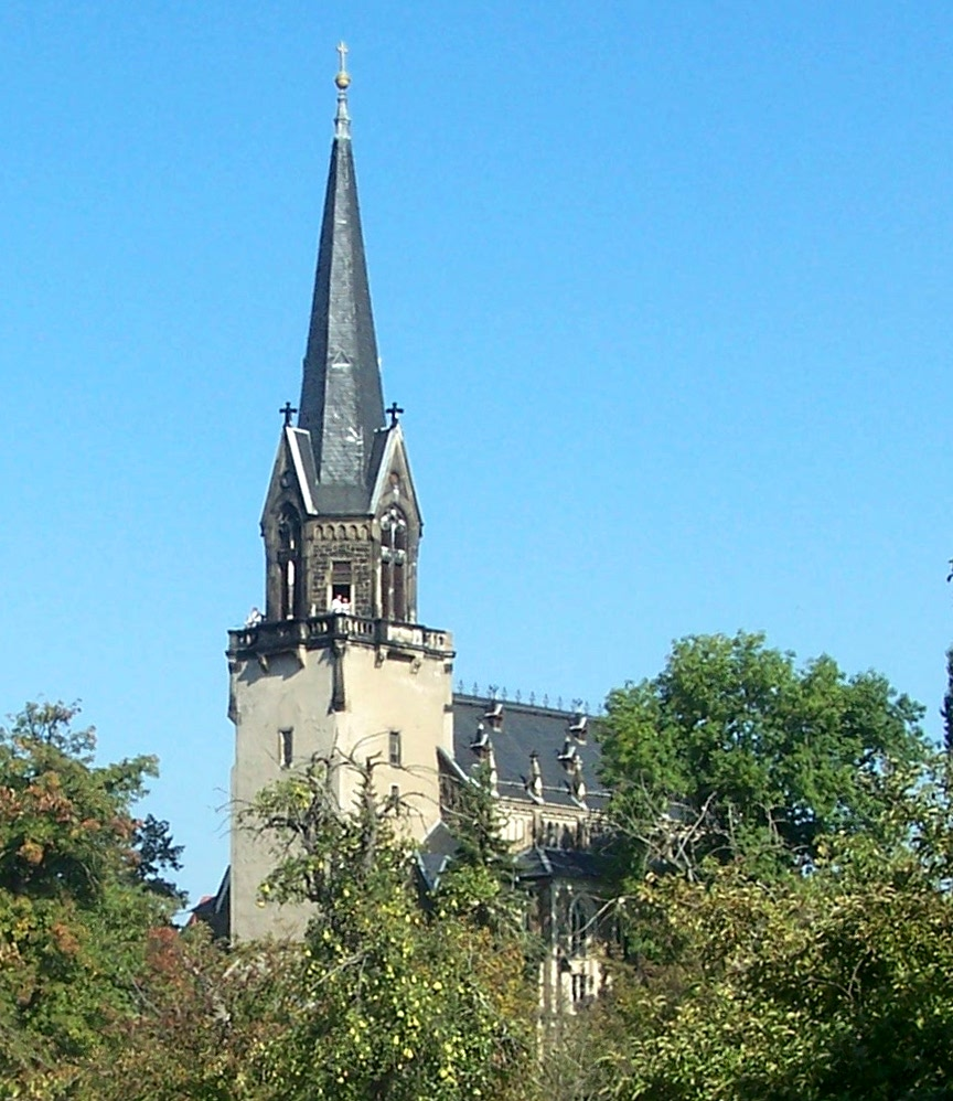 Friedenskirche in Radebeul, Germany